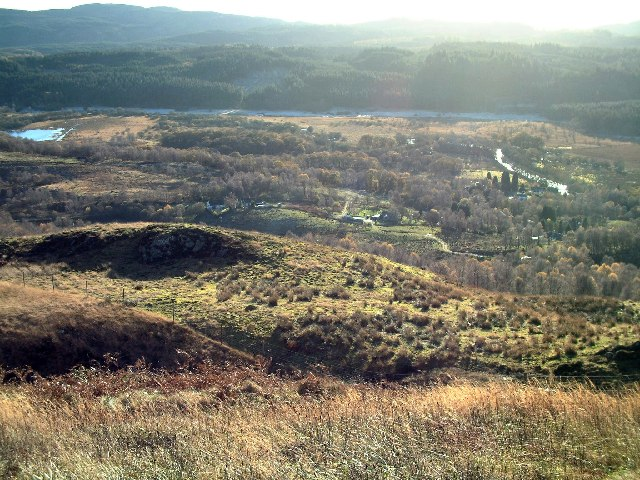 Brig o' Turk from Glen Finglass Forest. Black Water flowing from Loch Achray to Loch Venacher in the background